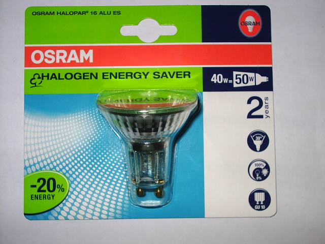 Osram Halogen Energy Saver